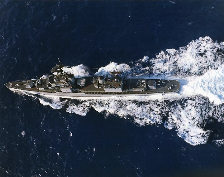 The U.S. Navy destroyer USS Rowan (DD-782) underway in the Western Pacific, circa early 1965. Note her FRAM I modifications: Mk 32 torpedo launchers, SPS-37 radar, ASROC launcher and DASH hangar.